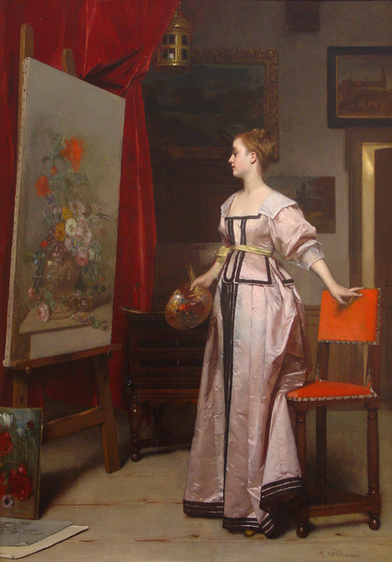 The Young Artistlabel QS:Lde,"die junge Künstlerin"label QS:Len,"the Young Artist"label QS:Lfr,"la jeune artiste"